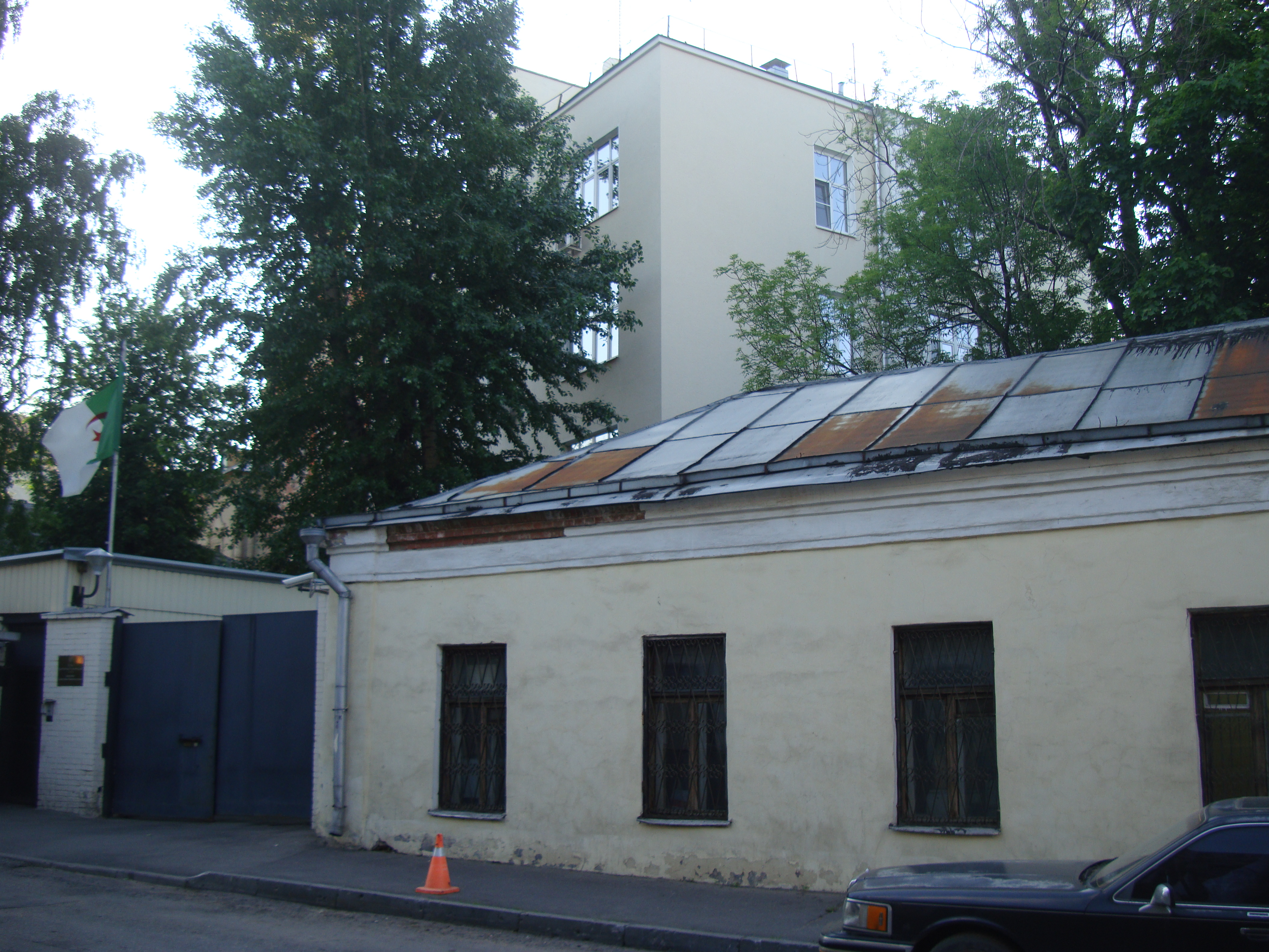 1A Krapivensky Lane, Tverskoy District, Moscow, Russia. Embassy of Algeria. Крапивенский переулок, д.1А, Тверской район, Москва, РФ. Посольство Алжира.